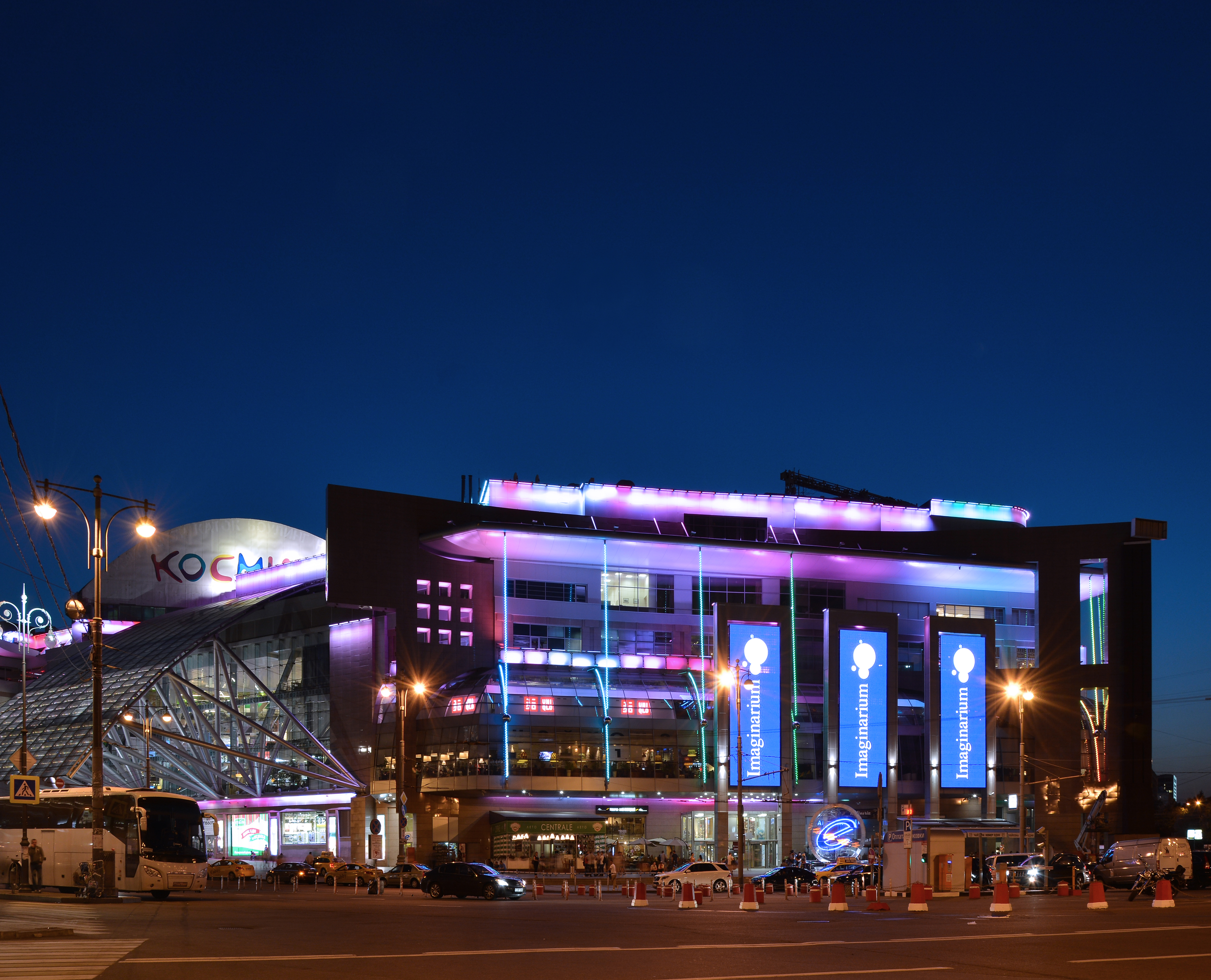 Moscow. Shopping and entertainment center "Evropeisky" ("European") in the night light. View from the Kievsky Rail Terminal Square.